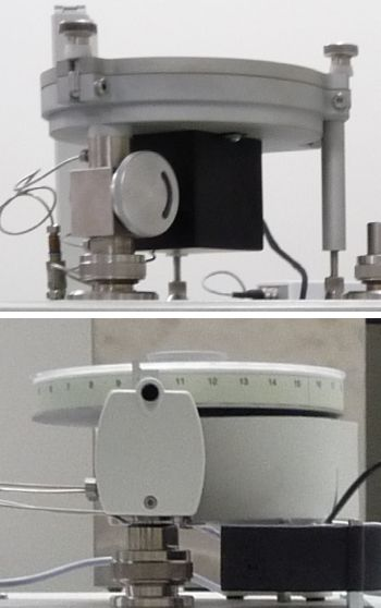 Two different autosamplers for solids. Both consist of motorized carousels.